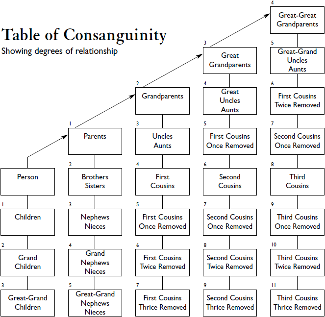 Table of Consanguinity, showing degrees of relationship